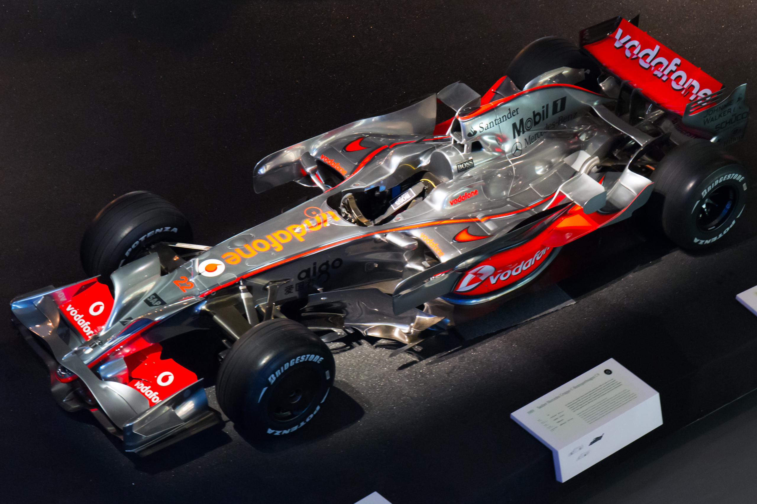 2008 McLaren MP4-23